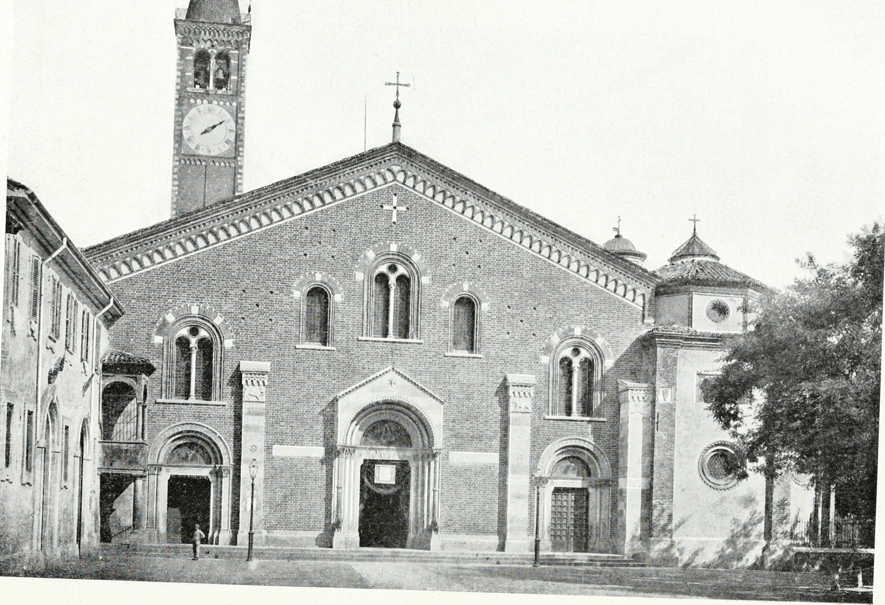 Title: Milano Year: 1906 (1900s) Authors: Malaguzzi Valeri, Francesco, 1867- Subjects: Milan (Italy) -- Art Milan (Italy) -- Description and travel Publisher: Bergamo, Istituto Italiano d'Arti Grafiche Text Appearing Before Image: DI OMO — STATUE NEL TlBl klU. Trovo inoltre che prima del 1553 si demoliva la cappella della Madonna per fareil coro, che nel 1546 lingegnere Dionigi da Varese dirigeva grandi lavori nel chiostroe nei locaH finitimi, che nel 1596-97 si eseguivan nuovi locali nel convento, compresoil Refettorio, che nel lòoge 16io si costruivan molte cappelle nella chiesa, che nel1622 si innalzava un nuovo chiostro e i lavori eran collaudati dal Richino, che nel1Ó72 si fabbricava una nuova cappella, non è detta quale, nella chiesa, che nel 1698■si rifaceva gran parte dei tetti delle cappelle, che nel 1707, 1711, 1724 si lavorava ^ Text Appearing After Image: '